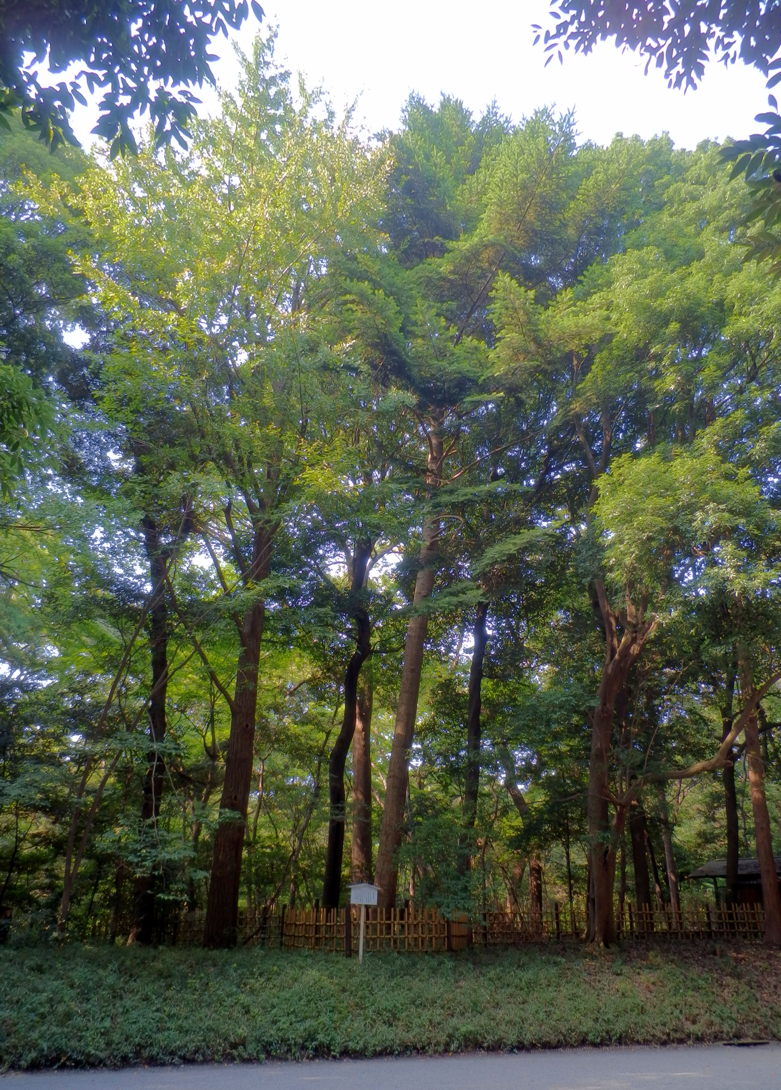 "Yoyogi" in Meiji Shrine (Tokyo, Japan)